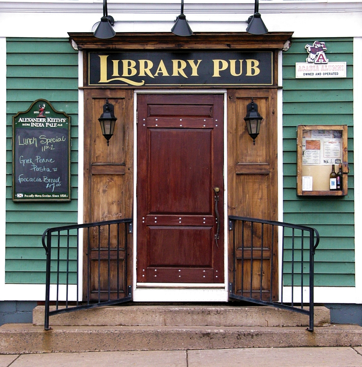 On Main Street Wolfville, Nova Scotia, Canada, operated by the Alumni of Acadia University (across the street) is the Library Pub above the Coffee Merchant coffee shop", Royalty free, no restrictions